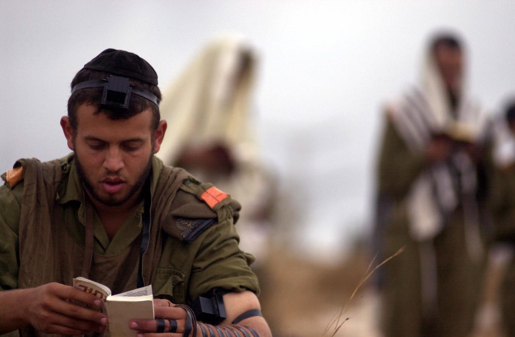 A Nachal soldier partakes in morning prayers before returning to his military activities. He is one of the few chosen to take a commanders course in the Adam Facility before being dispatched to standard field duty.